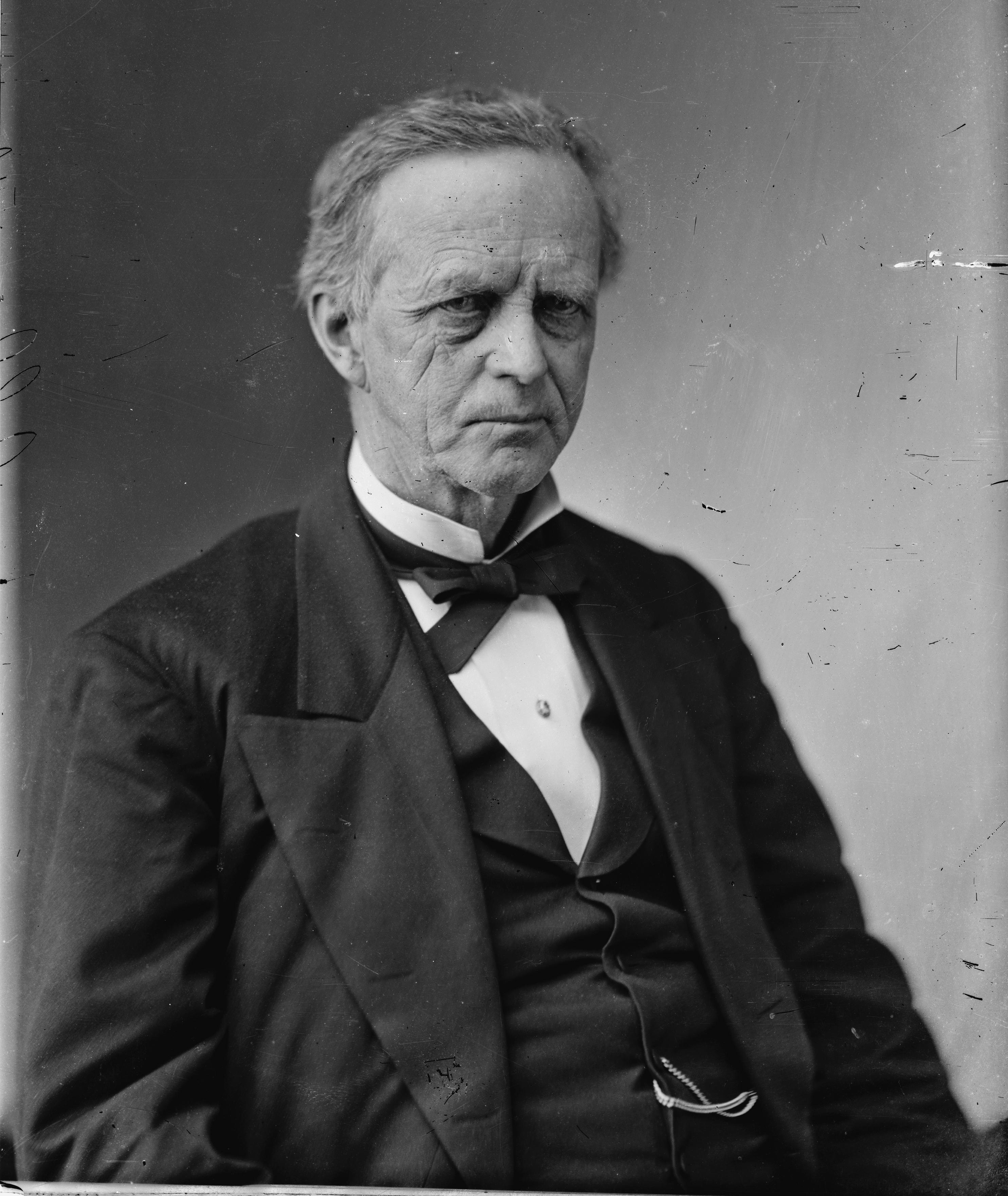 Lyman Trumbull. Library of Congress description: "Trumbull, Lyman (Attorney)"